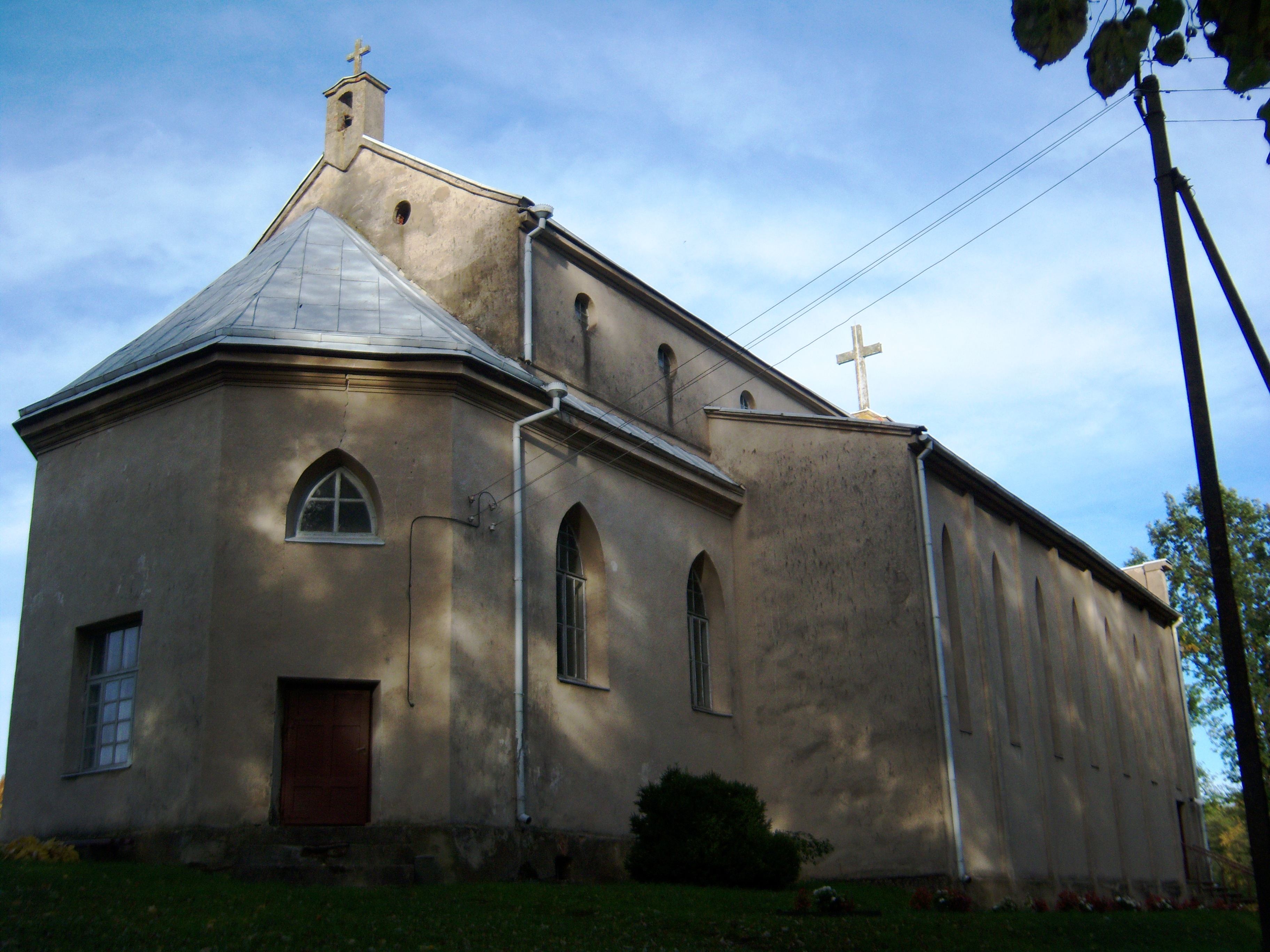 Roman Catholic Church of the Transfiguration, Alksninė, Vilkaviškis District, Lithuania